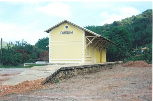 Churches in the district of Furquim, Minas Gerais, Brazil.